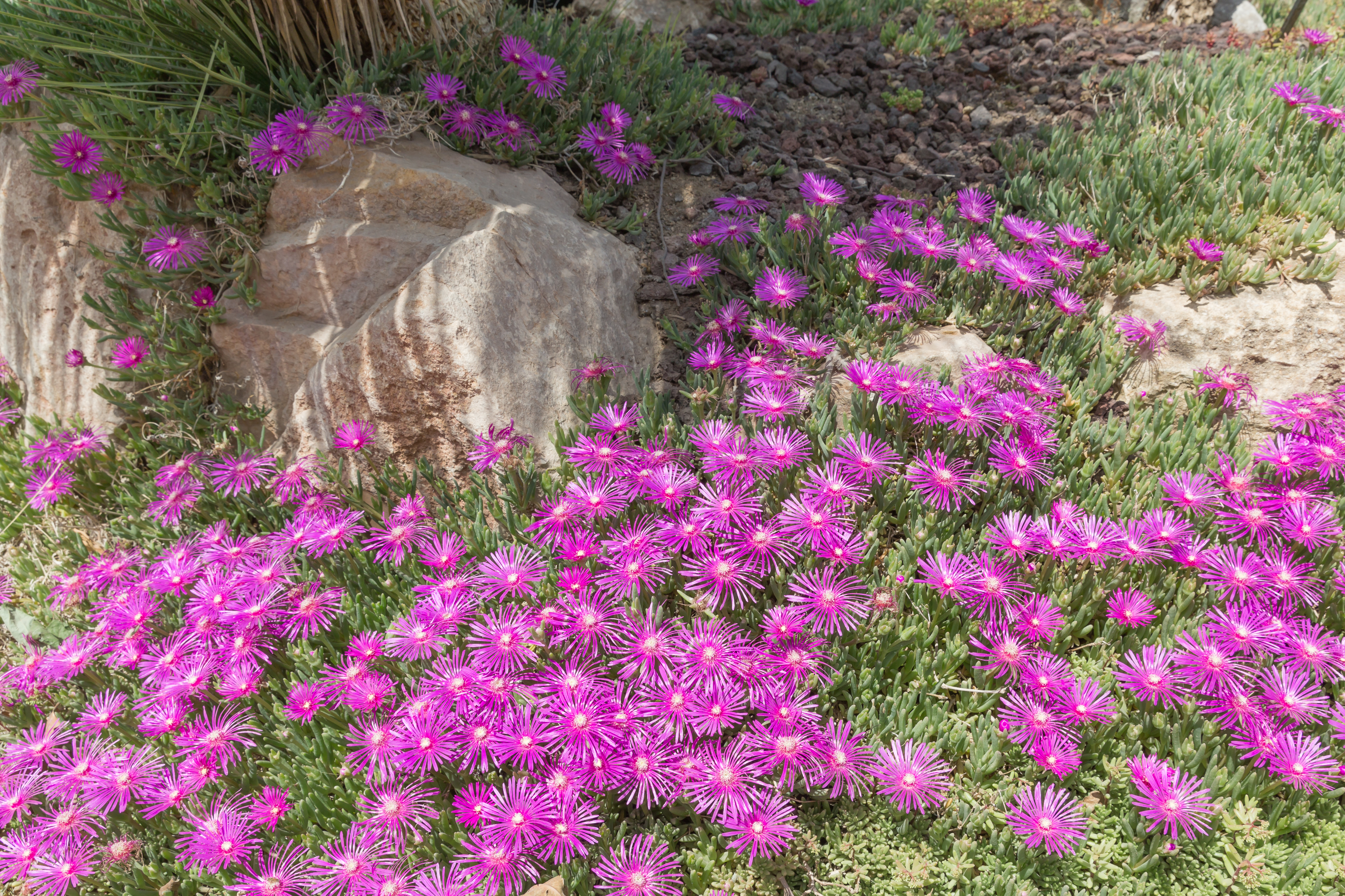 Delosperma cooperi (Pink Carpet) in jardin botanique de Lyon, France.